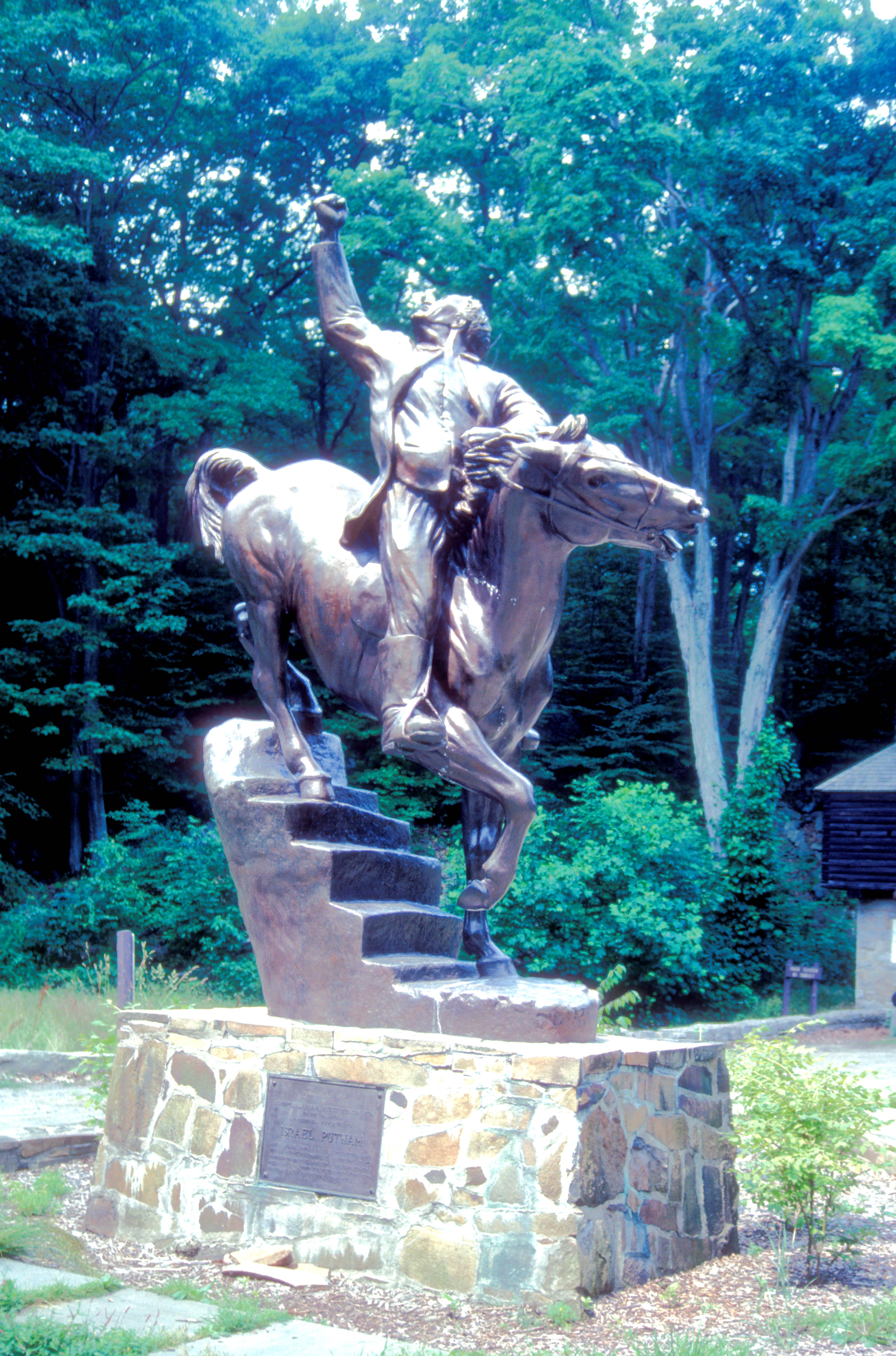 THIS STATUE DEPICTS PUTNAM ESCAPING BRITISH CAPTURE BY RIDING HIS HORSE DOWN A FLIGHT OF STAIRS DURING THE REVOLUTIONARY WAR